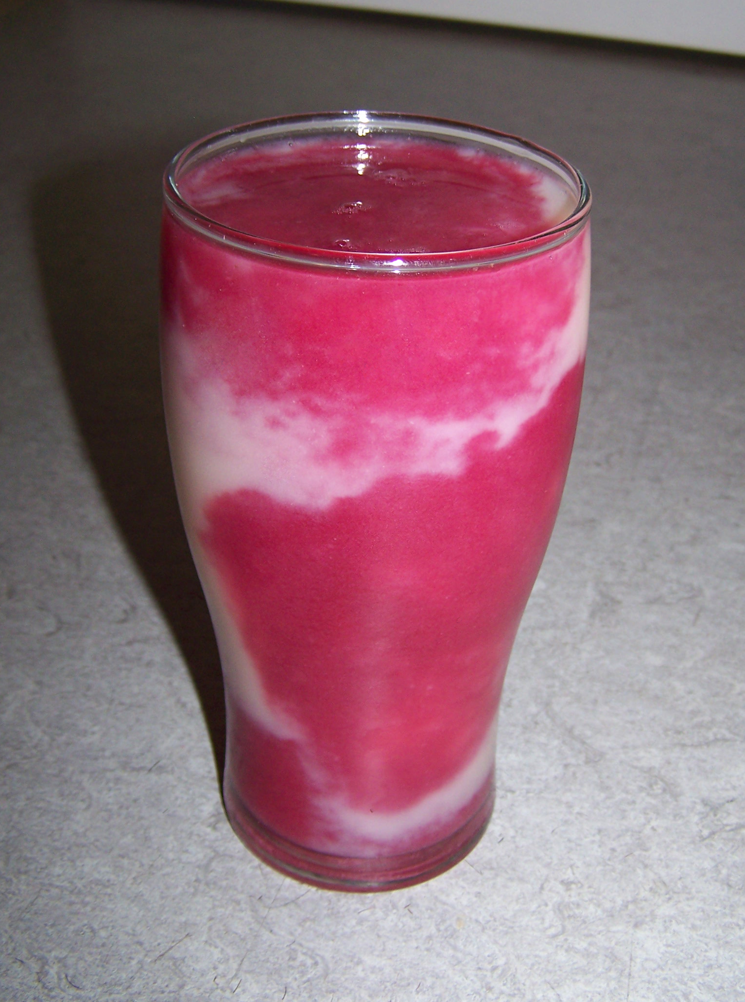 A Kiba, the two different colors are clearly visible.